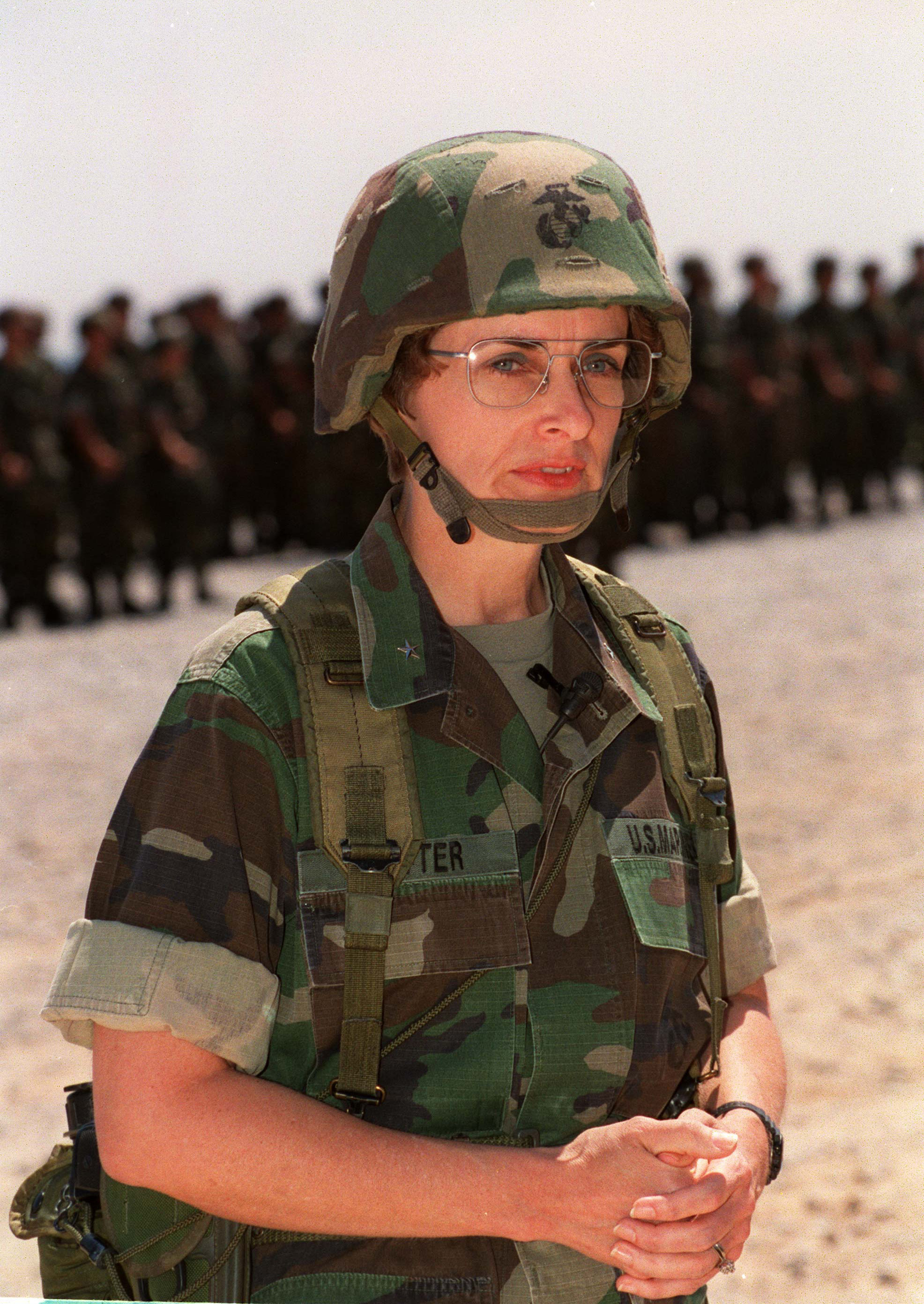 Brigadier General Carol A. Mutter addresses the guests during her change of command ceremony at the 3rd Force Service Support Group.